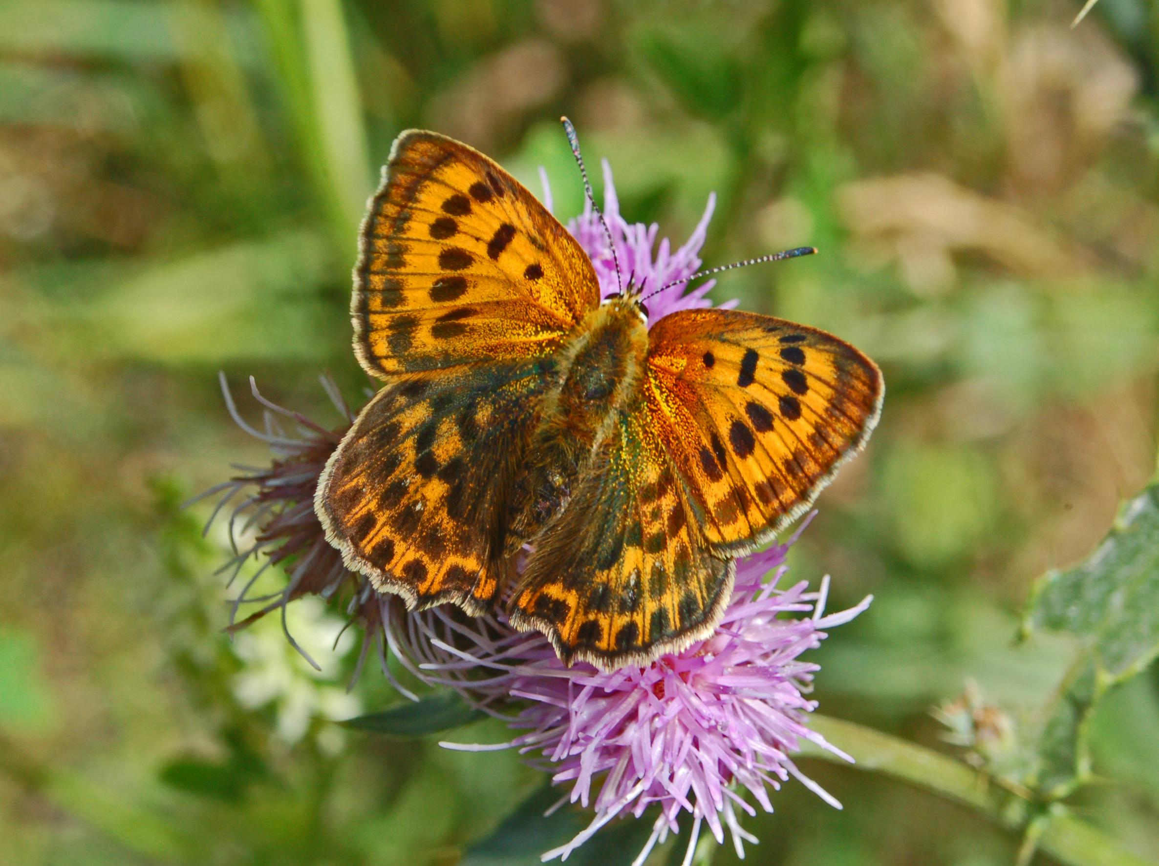 Lycaenidae - Lycaena virgaureae